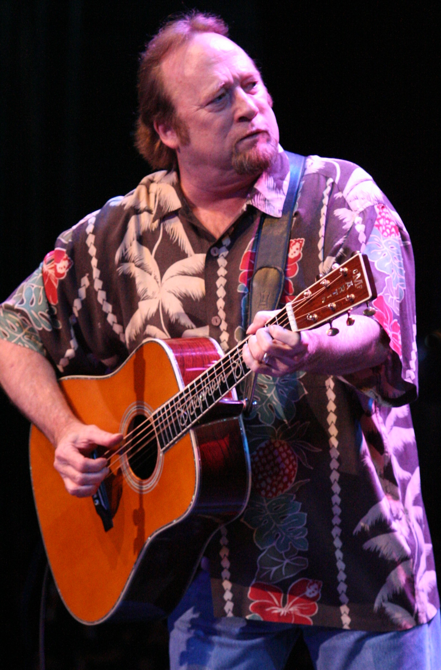 Stephen Stills performing live at the Florida Theatre in Jacksonville, Florida, on May 4, 2007.